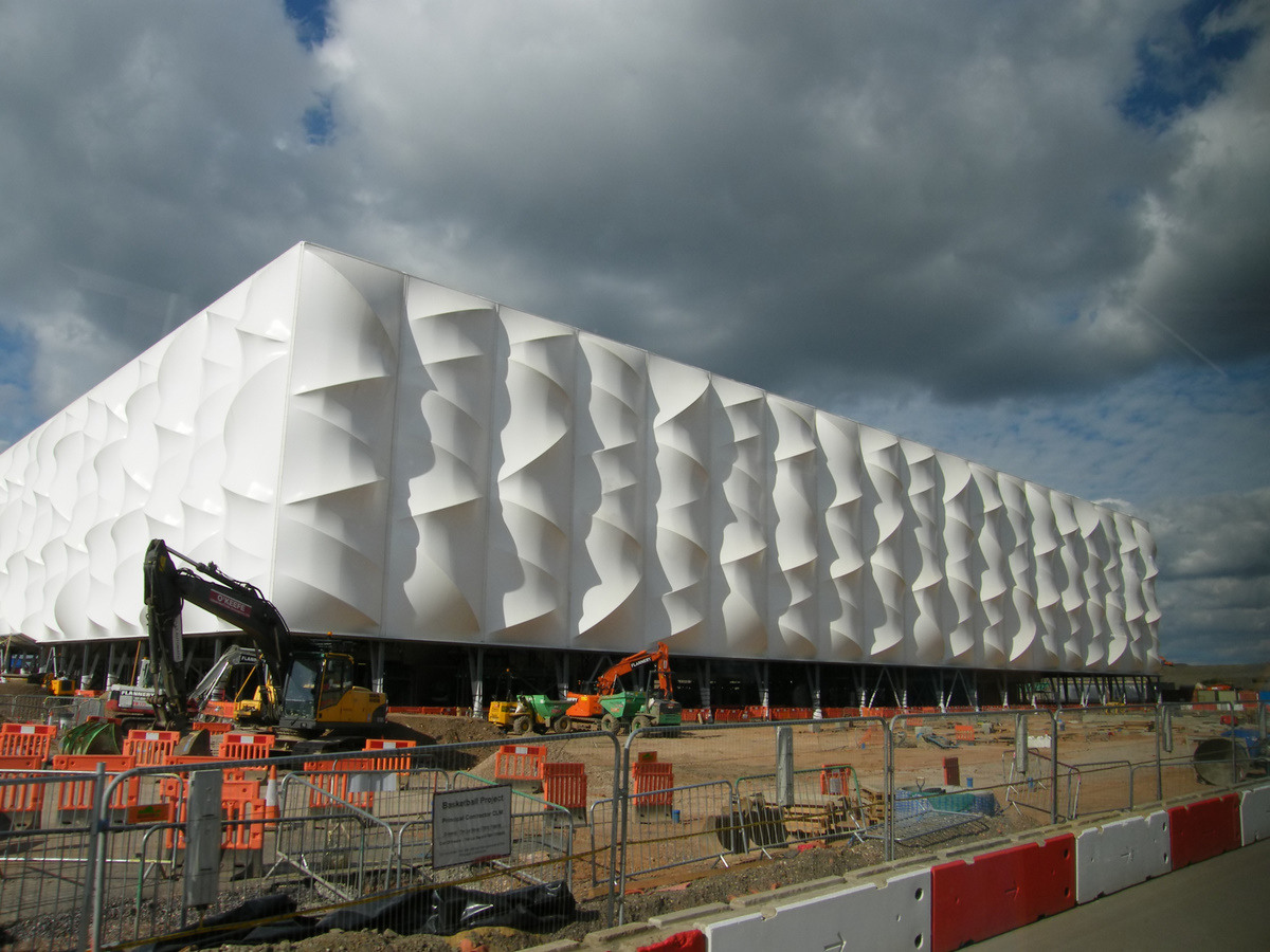 London 2012 Olympics Basketball Arena — under construction in September 2010.